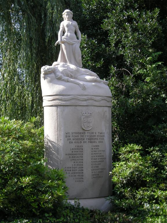 War memorial in Heerenveen.